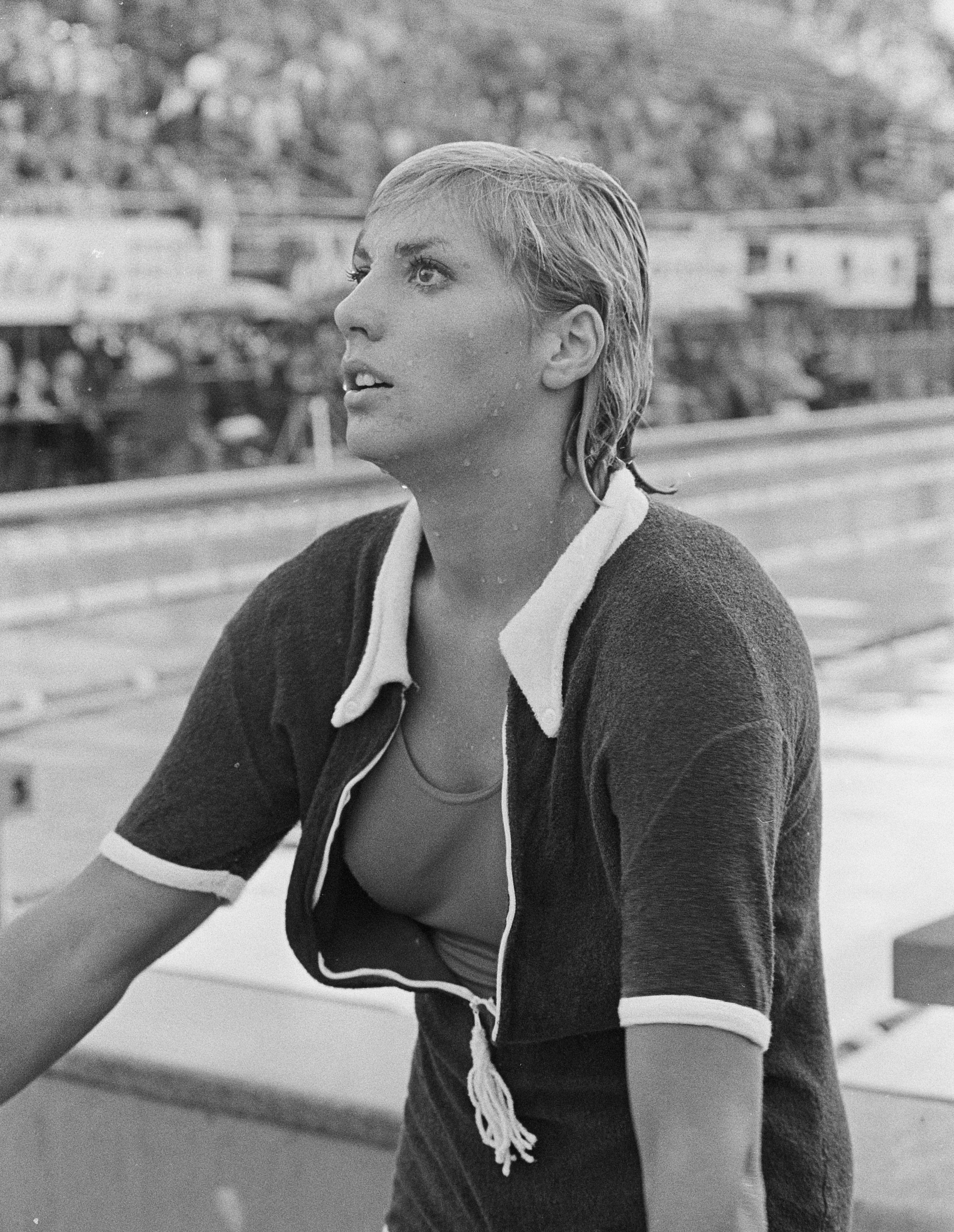 Christine Caron